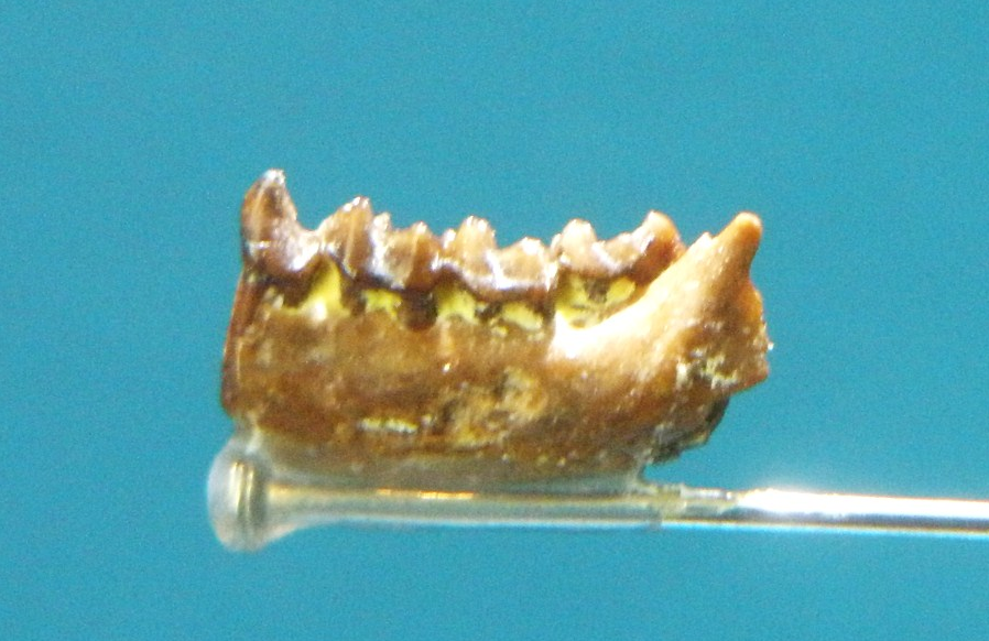 Cropped image of taxon in file name